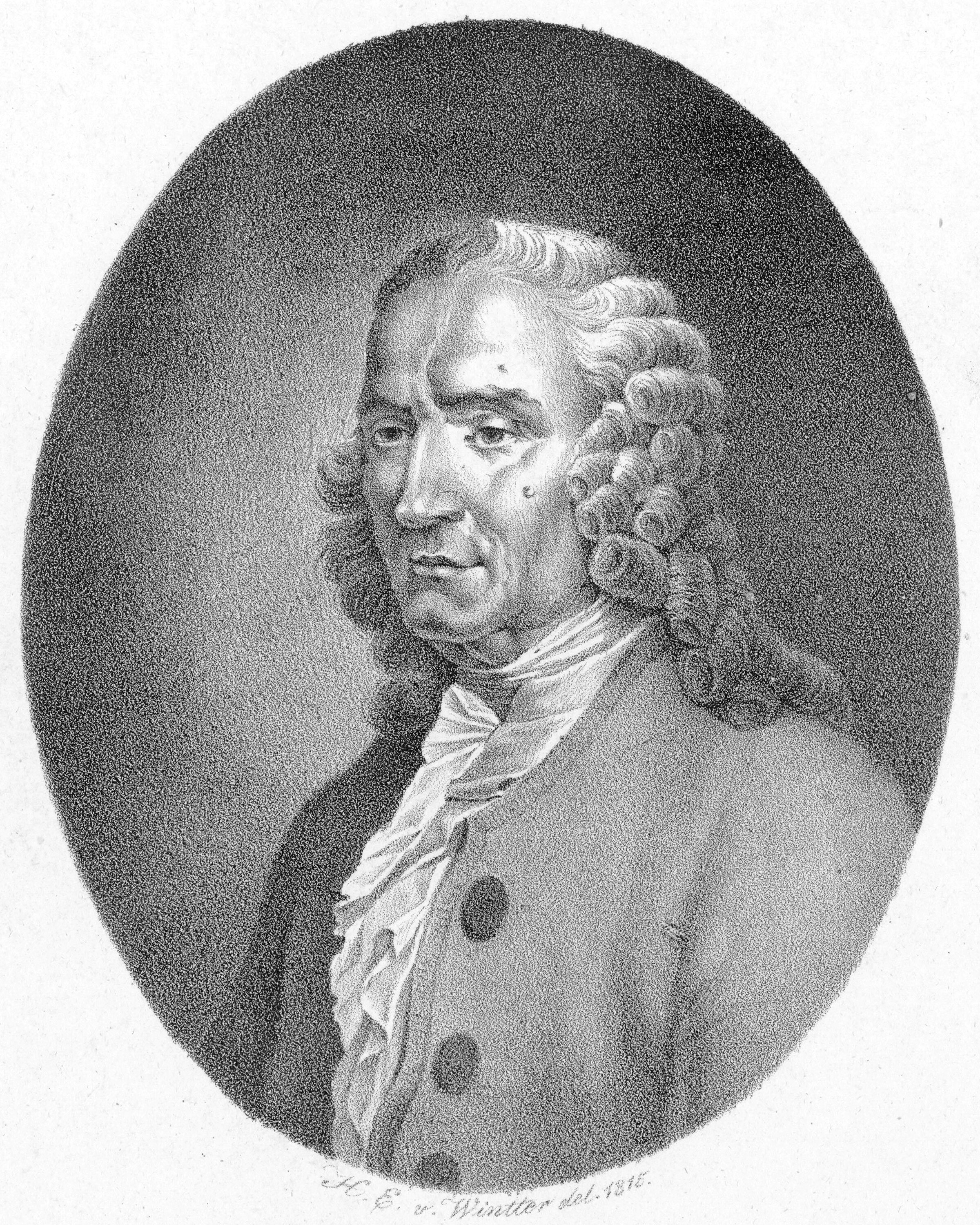 Depicted person: Jean-Philippe Rameau (1683–1764), French composer and music theorist of the Baroque era